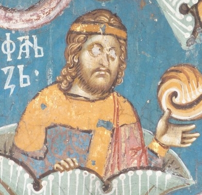 Detail of fresco Loza Nemanjića,Stefan (son of Vukan),Visoki Dečani,Serbia.